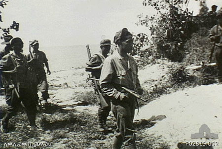 AWM Caption: Tarakan, Borneo. 1945. Disembarking on a remote section of Tarakan's coastline, one of many Indonesian patrols prepare to reconnoitre inland to clear the nearby country of Japanese stragglers. This patrol is part of the first combined AIF and Royal Netherlands Indies Army Forces attack on the Netherlands Indies.